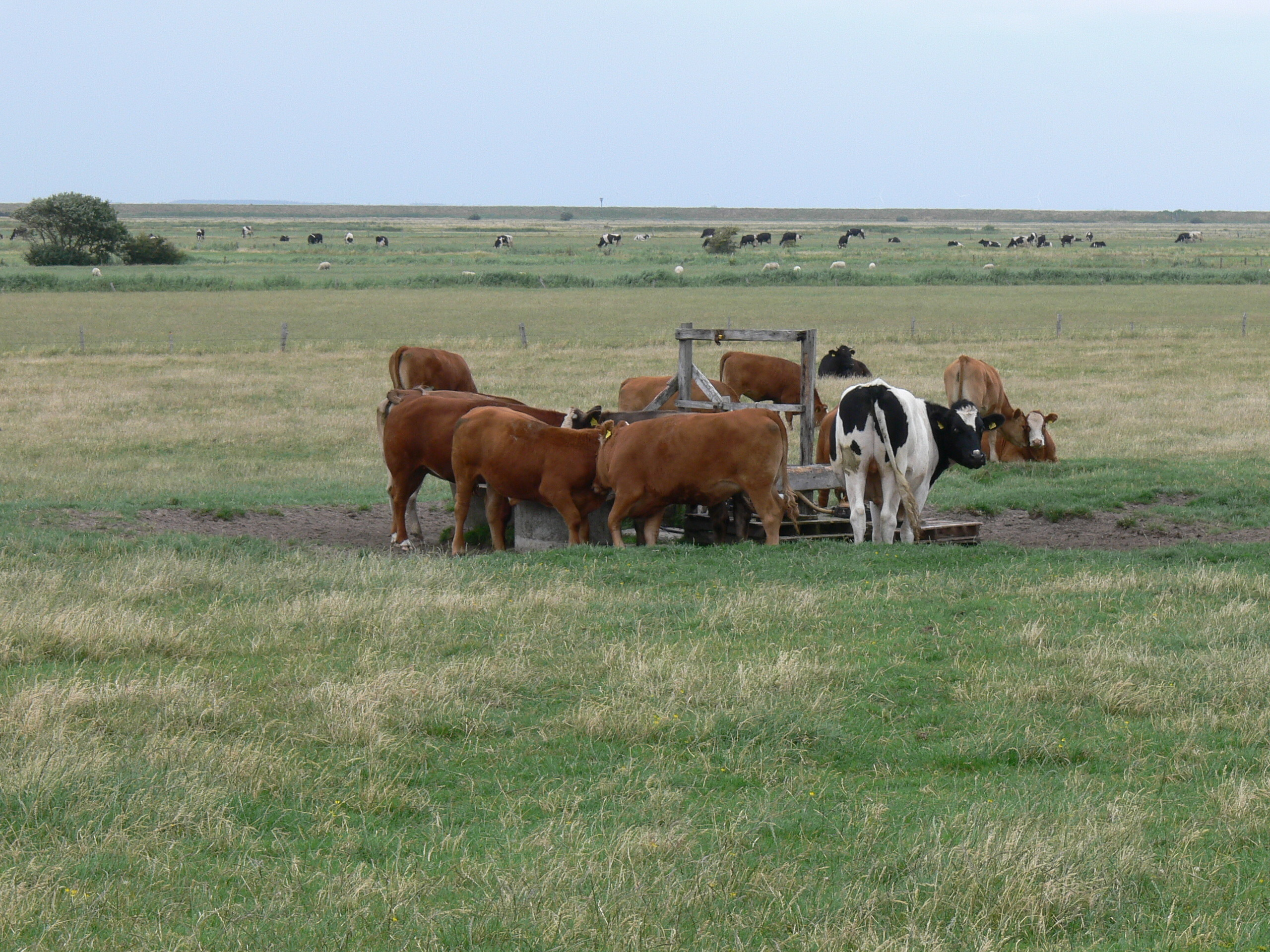 Rømø (Denmark). Cattle at a watering place.